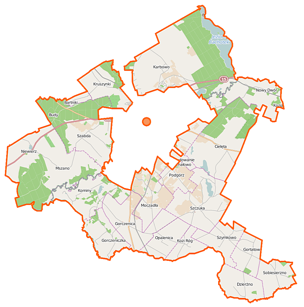 Map of Gmina Brodnica, Poland This map of Brodnica (gmina wiejska w województwie kujawsko-pomorskim) was created from OpenStreetMap project data, collected by the community. This map may be incomplete, and may contain errors. Don't rely solely on it for navigation. Border coordinates53.322319.2700←↕→19.537853.1604